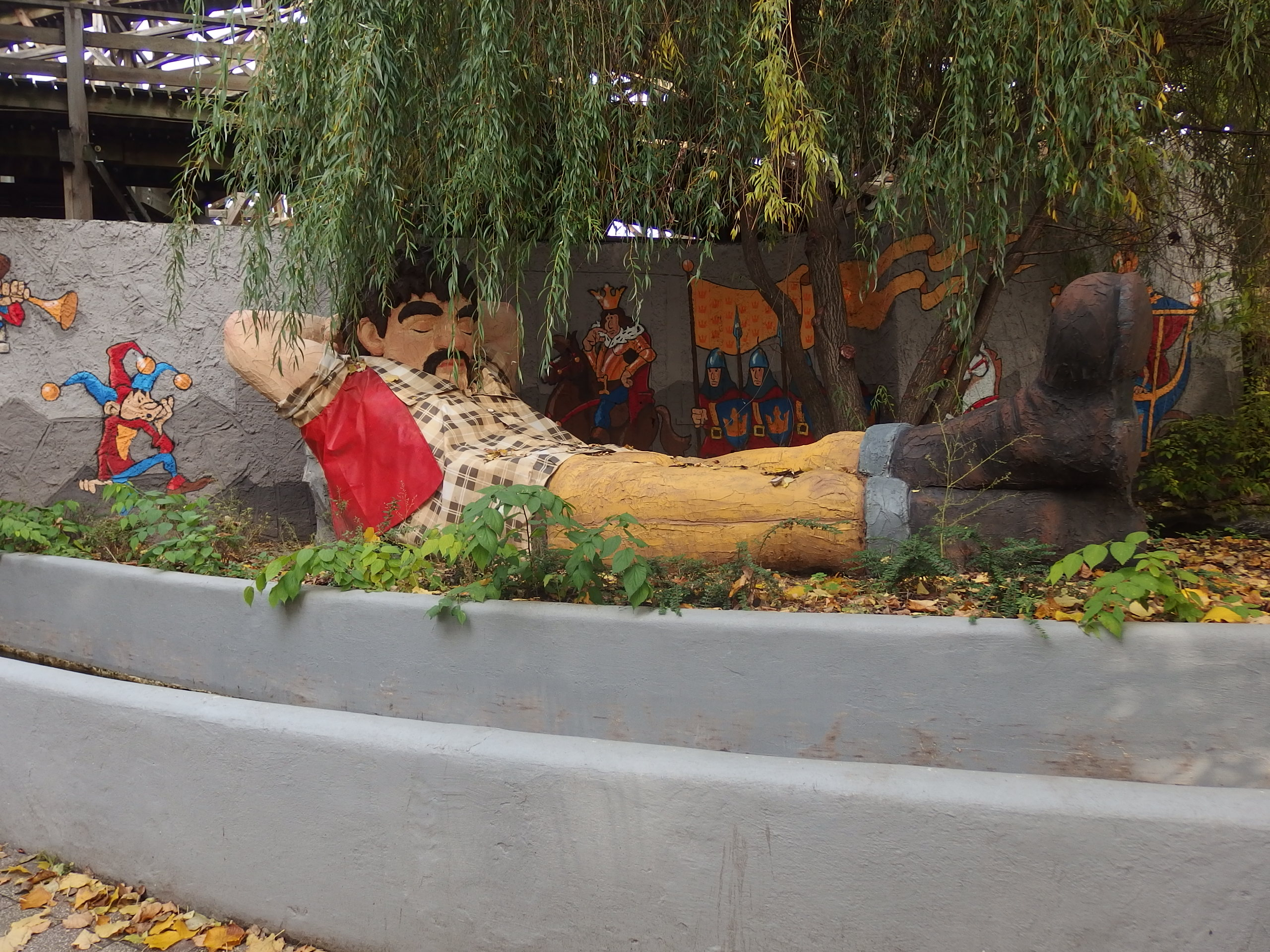 The Giant at the Budapest Amusement Park